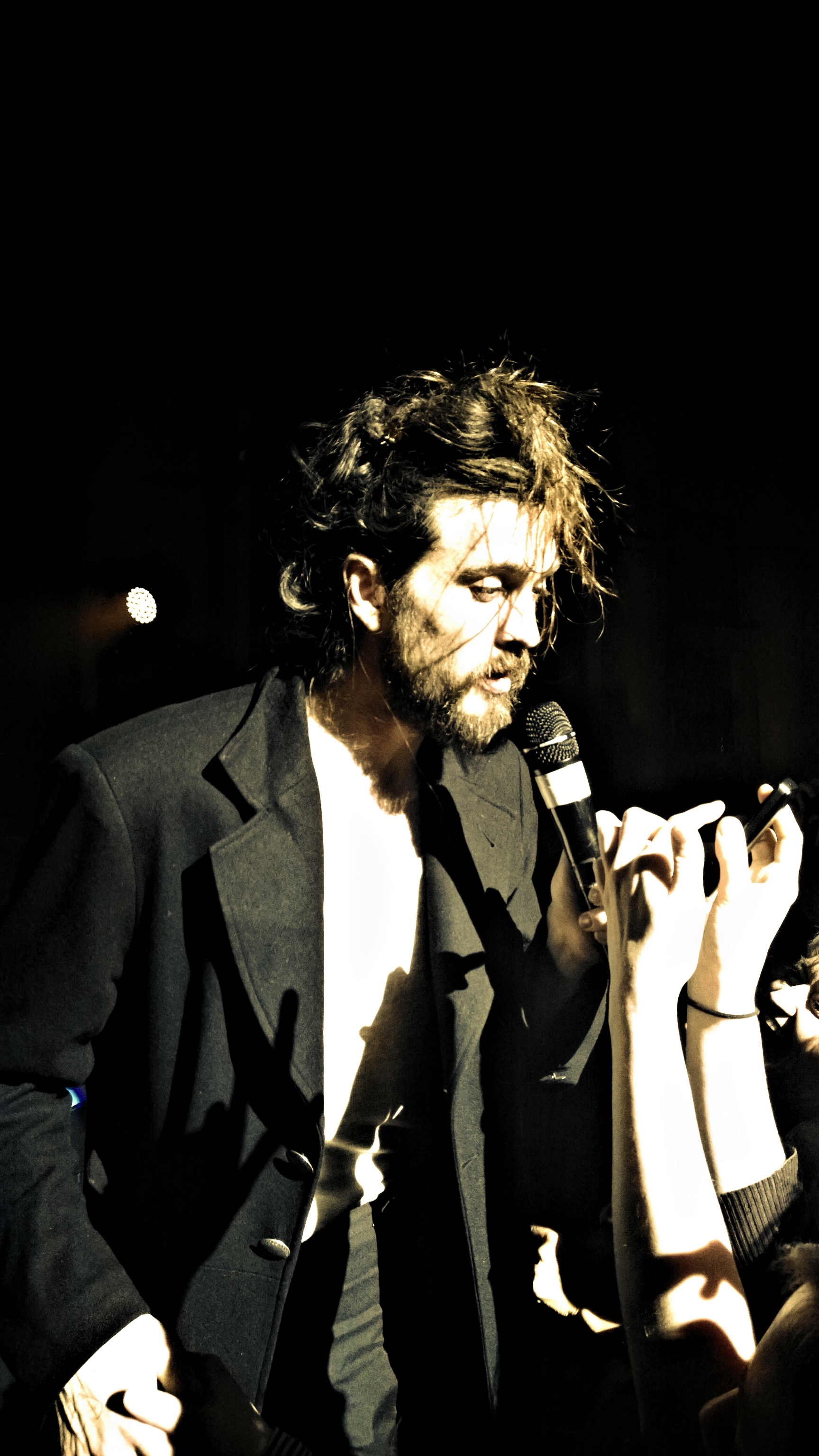 Edward Sharpe and the Magnetic Zeros, Brixton Academy